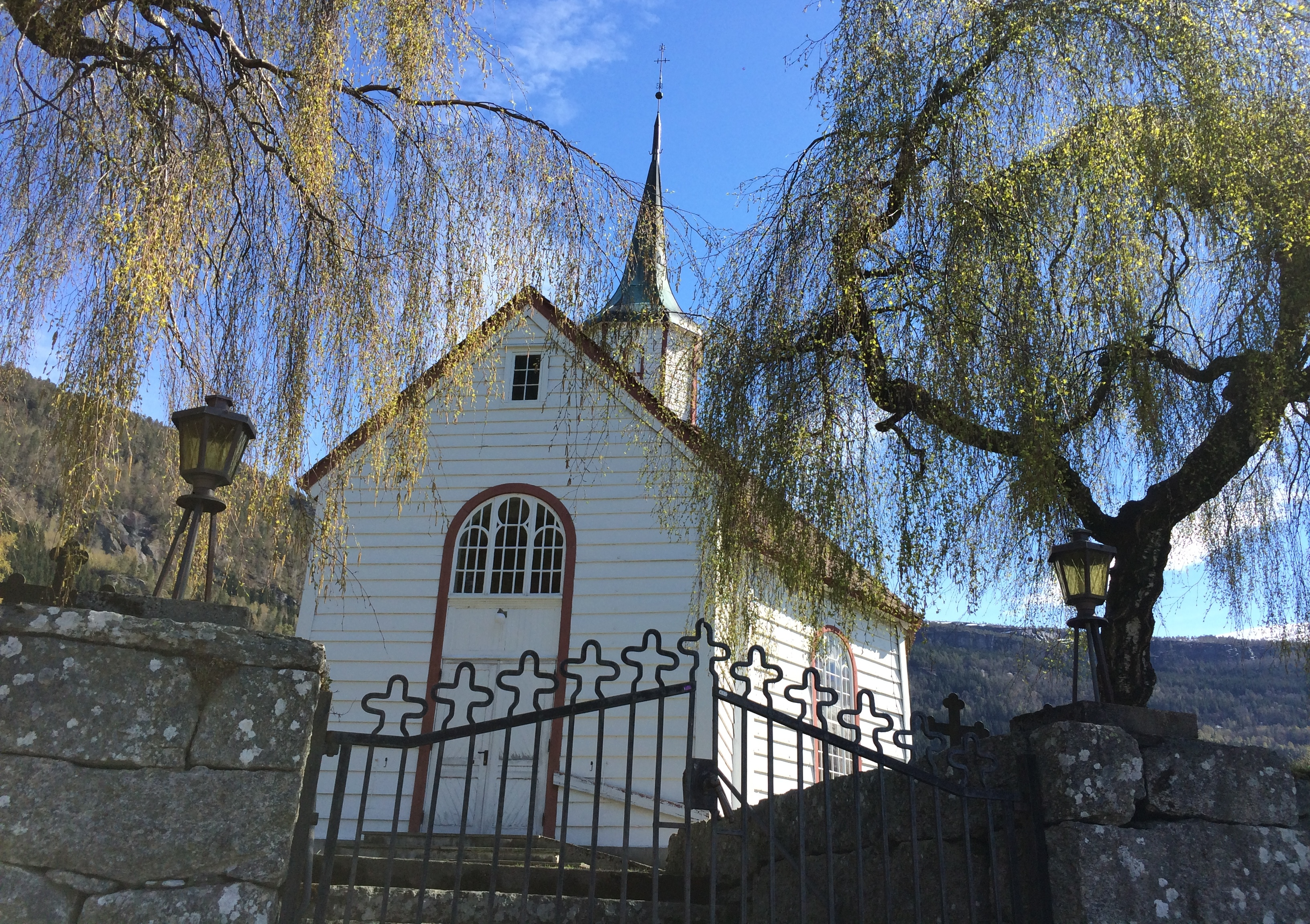 Innvik Church, Stryn, Sogn og Fjordane, Norway 2014-05-05